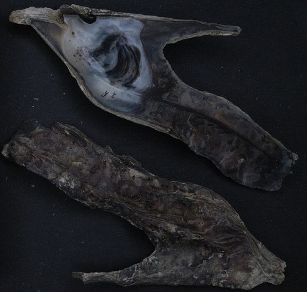 Malleus malleus (Linnaeus, 1758), Malleidae, Bivalvia, Mollusca, Naturalis Biodiversity Center - RMNH.MOL.318522